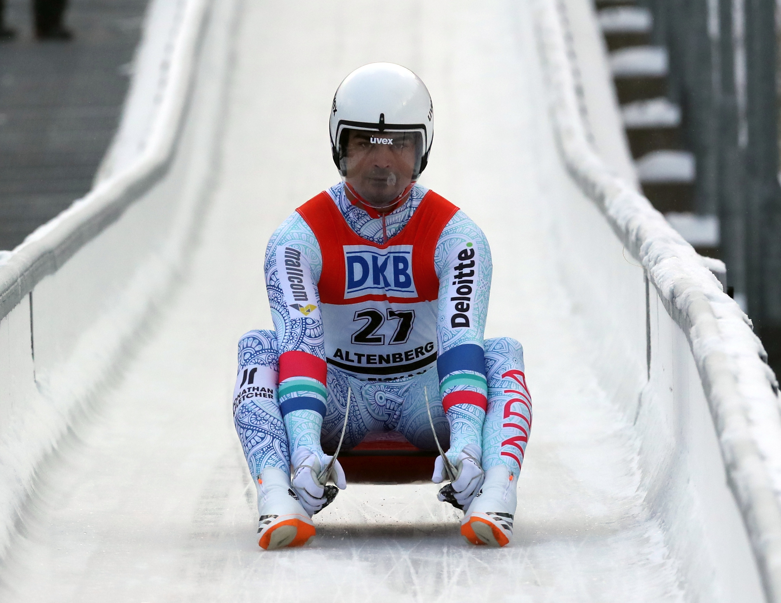 Shiva Keshavan (Indien) at the men's Nationscup race in Altenberg